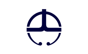 Flag of Oyodo Nara